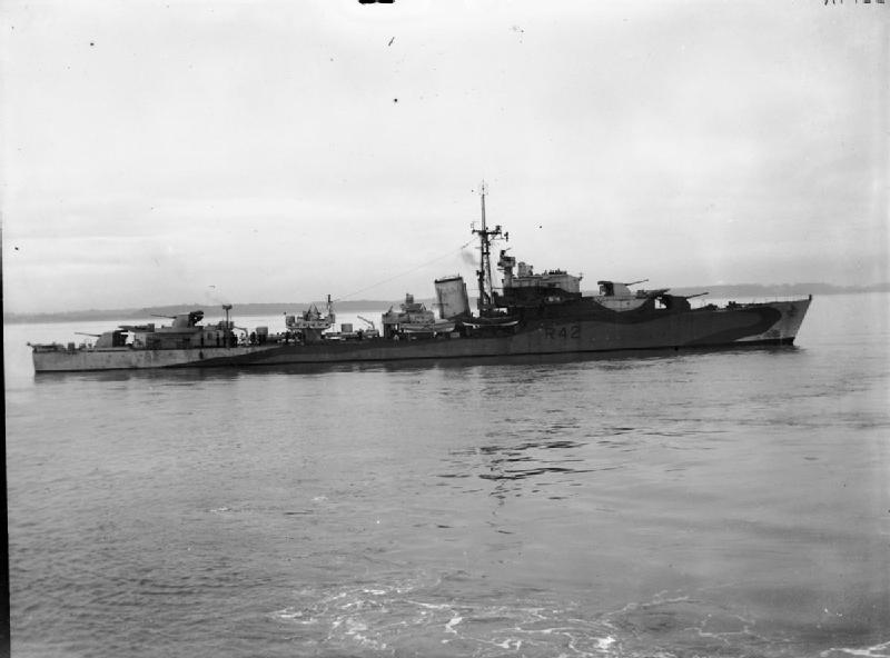 Photograph of British destroyer HMS Undine.